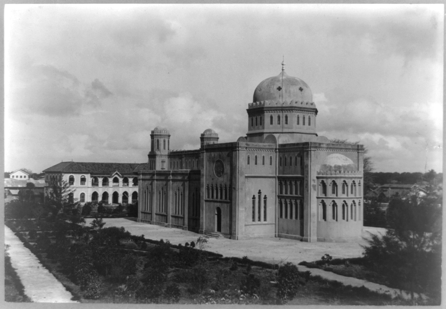 Title: Exterior view of cathedral, Mombasa, Kenya Physical description: 1 photographic print. Notes: Photo by Coutinho and Sons, Mombasa.; Frank and Frances Carpenter Collection.